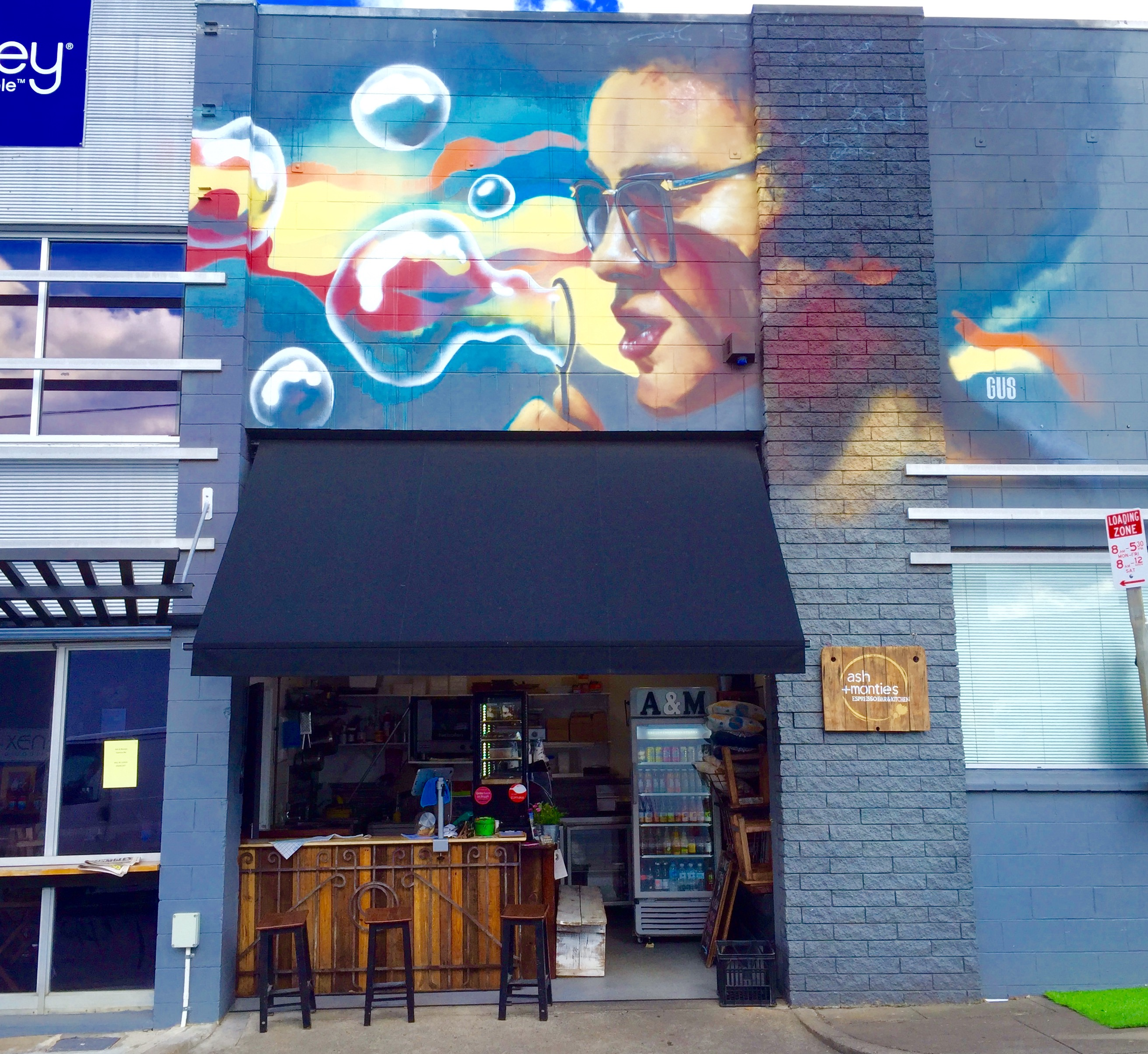 Ash & Monties Cafe Bar, West End, Brisbane Qld